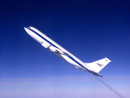 NASA's KC-135A (N931NA) plane ascending to begin a zero gravity maneuver over the Gulf of Mexico.